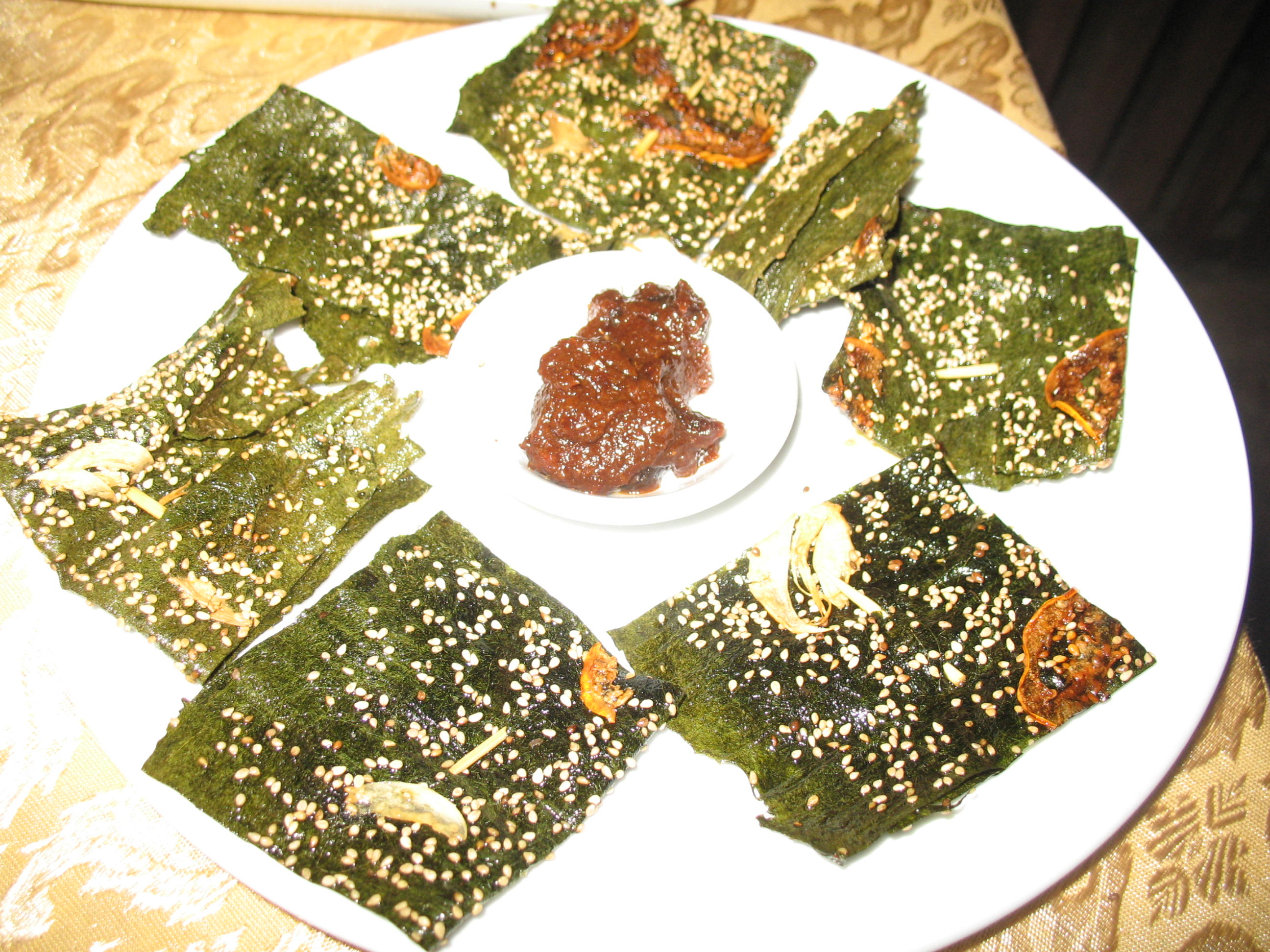 Jaew bong (Lao: ແຈ່ວບອງ) is a sweet and spicy Lao paste made with chilies, galangal and other ingredients. Its distinguishing ingredient, however, is water buffalo skin.